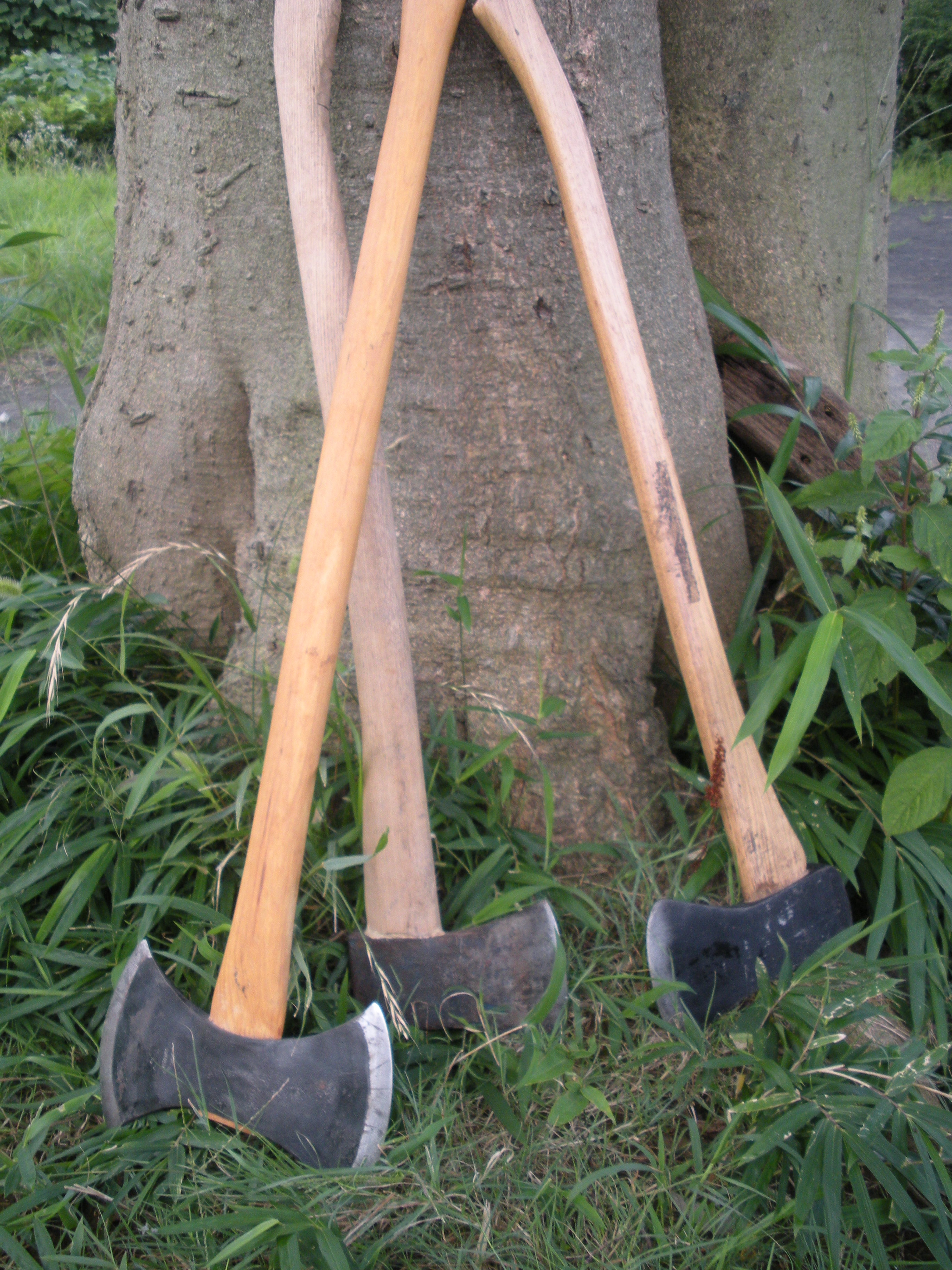 Felling axe